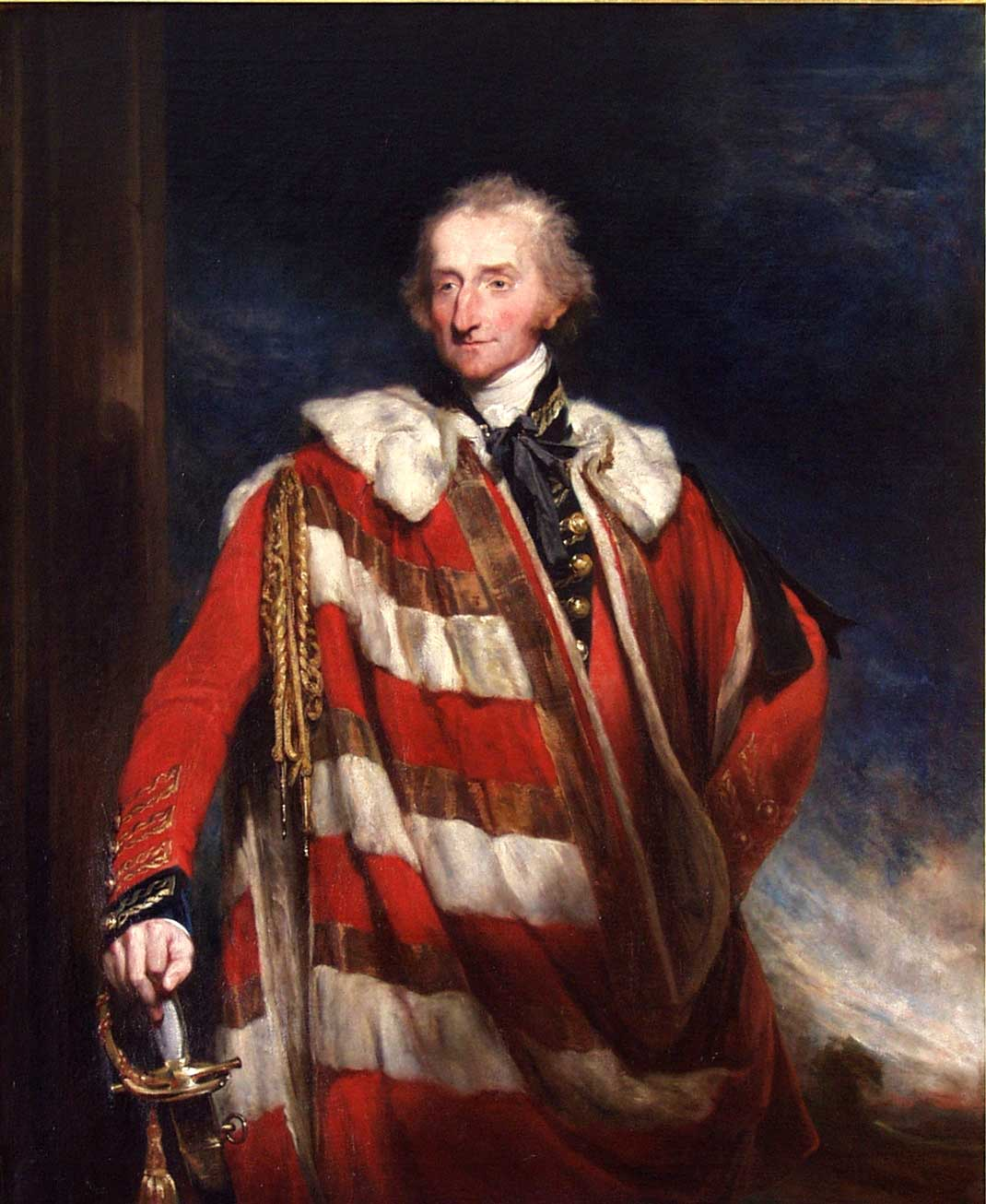 Depicted person: John Egerton, 7th Earl of Bridgewater – British politician